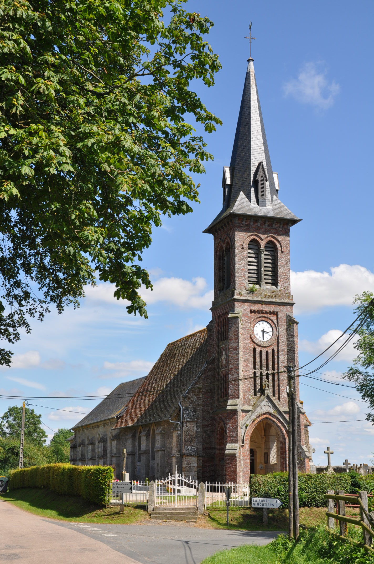 The Notre Dame of Bellou, in Bellou (Calvados department, Lower Normandy, France).